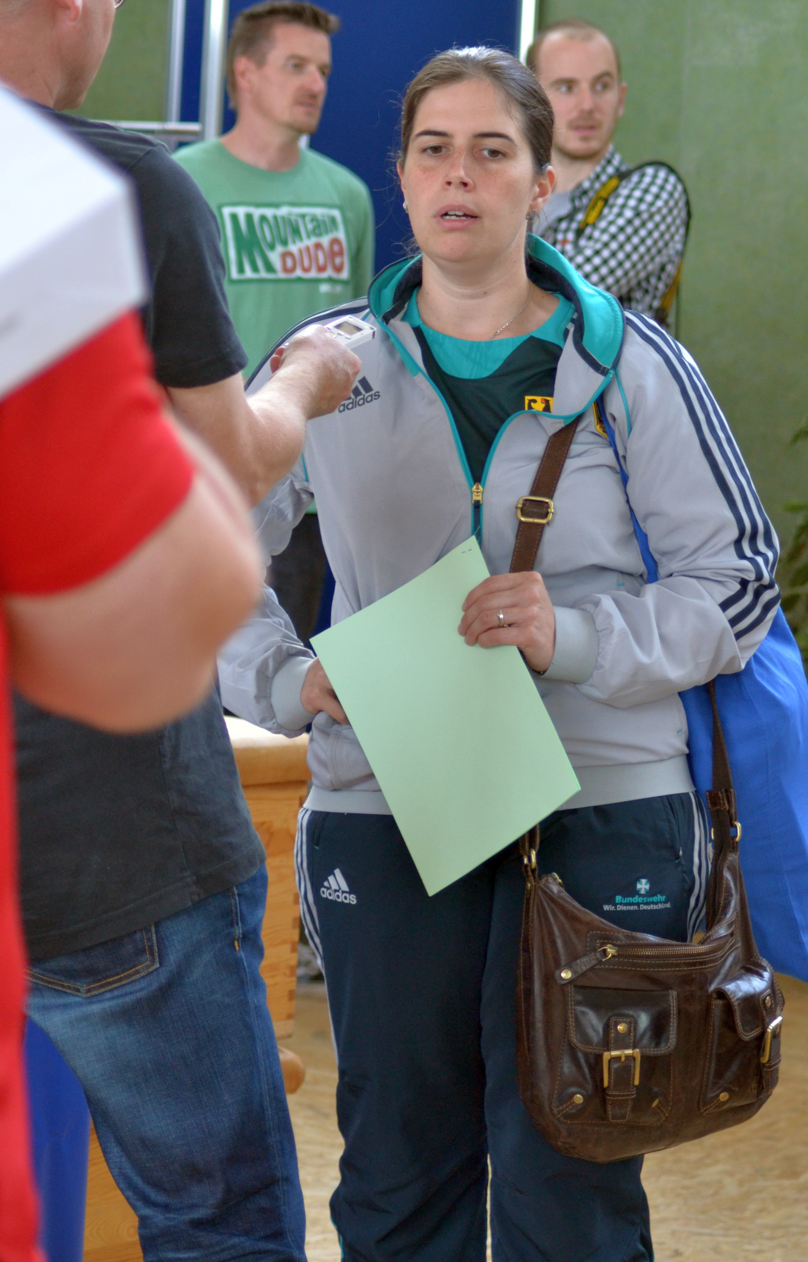 Media day of the clothing of the German Olympic team for Rio 2016 in the Emmich-Cambrai-Kaserne in Hanover. Pictured persons see Categories.